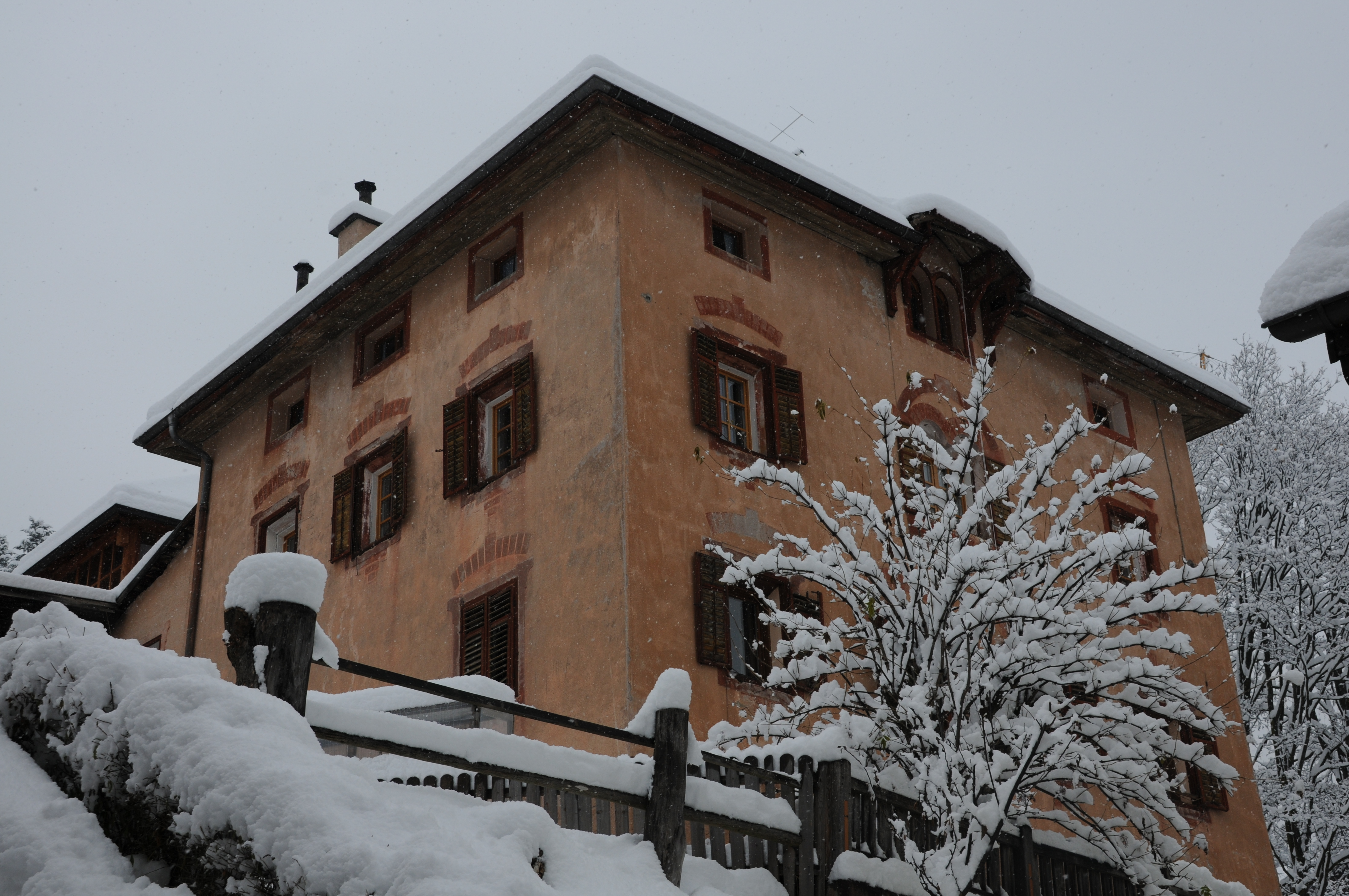 The house build by Franz Tavella in Urtijei